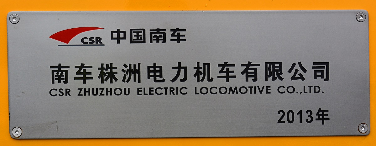 Class 20E Makers Plate.